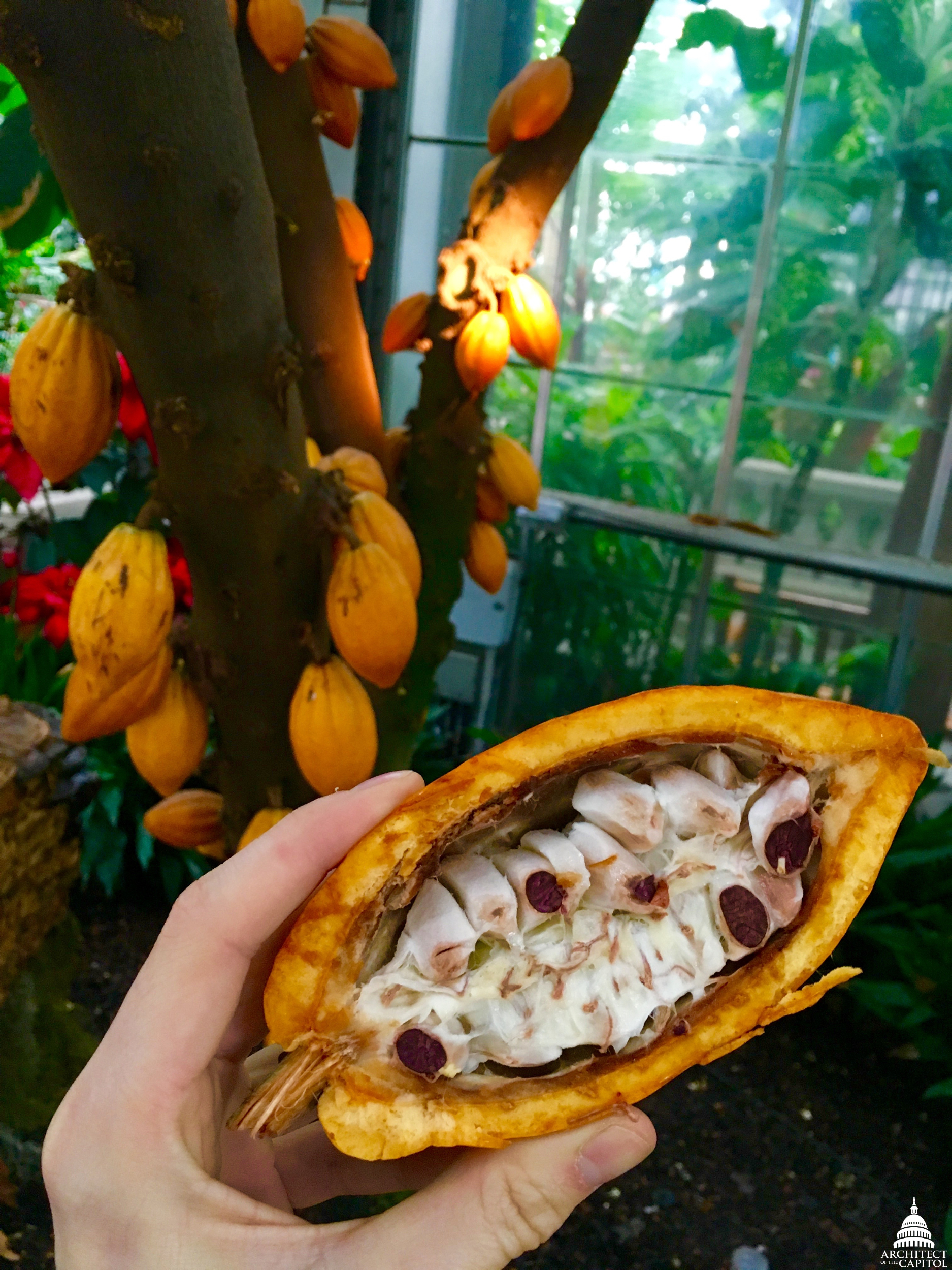 When you enter the United States Botanic Garden Conservatory’s Garden Court, one of the first plants you might see is the popular Theobroma cacao tree.